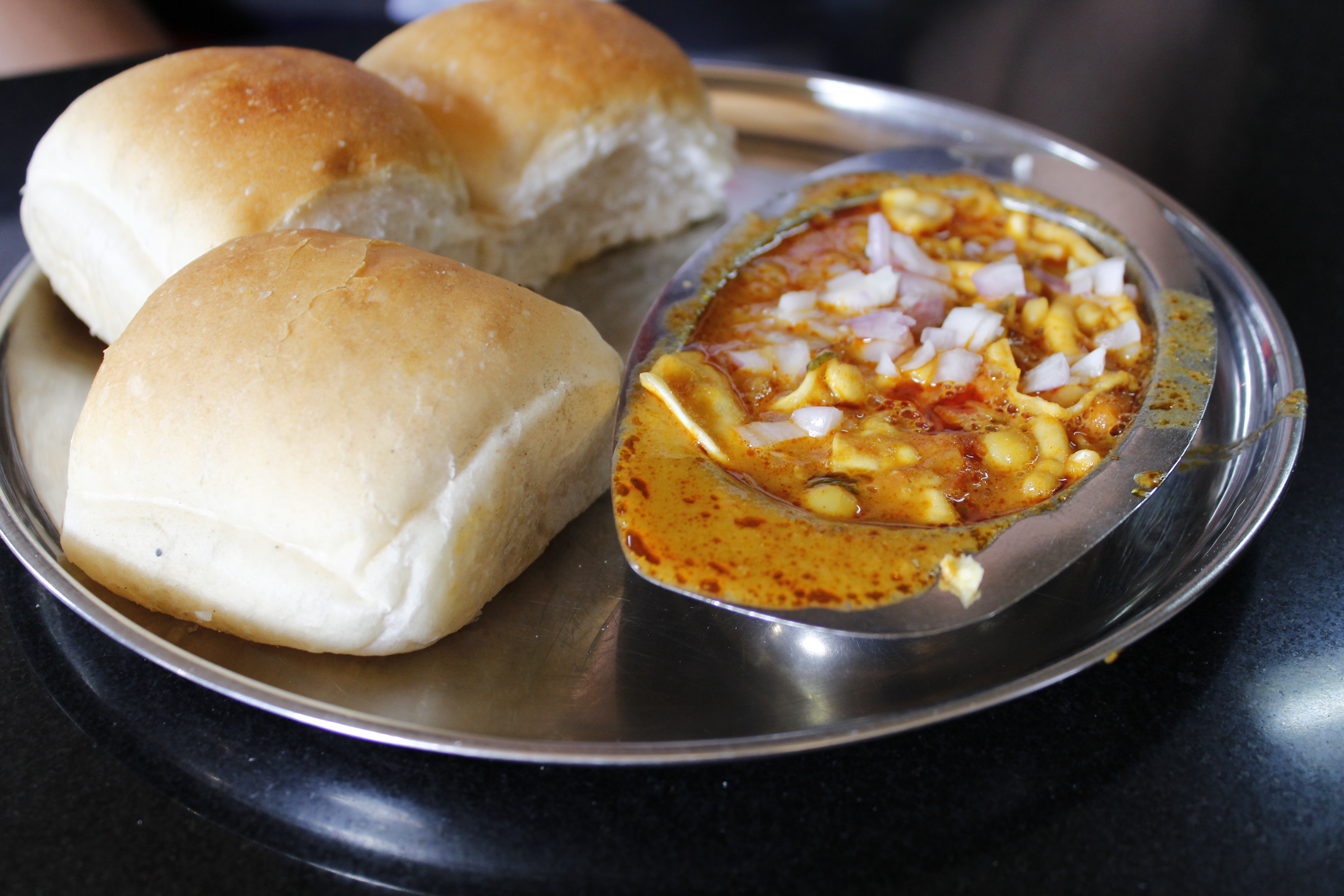 MISAL PAV IS ONE OF THE MOST SERVED AND DELICIOUS FOOD ITEM IN MAHARASHTRA, INDIA. IT IS MADE OF SPICY CURRY AND SPROUTED BEANS AND TOPPED WITH MIX FRASAN OR SEV , ONION , LEMON AND CORIANDER. IT IS USUALLY SERVED ALONG WITH PAV ( A TYPE OF BREAD) . IN DIFFERENT REGIONS OF MAHARASHTRA DIFFERENT TYPES AND FLAVORS OF MISAL PAV IS SERVED.